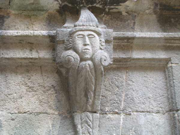 Billom (Puy-de-Dôme, France), medieval area, a face. Auteur/author Romary 2004